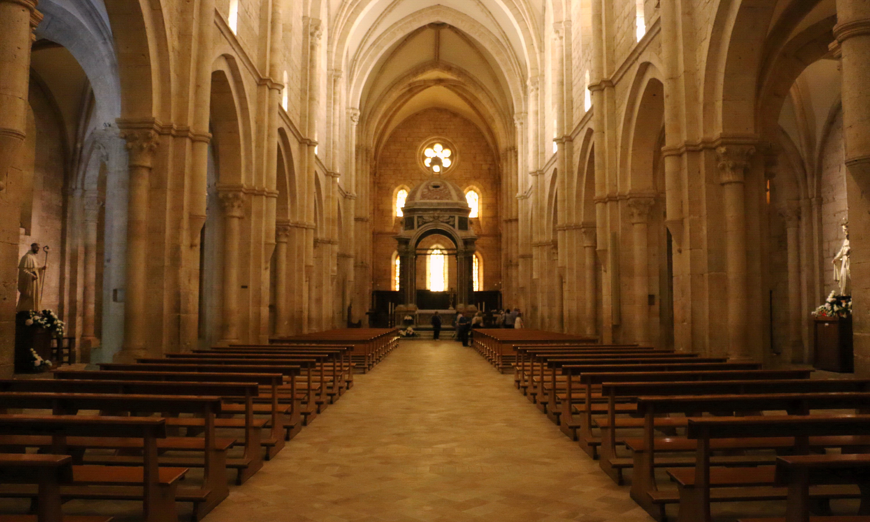 Abbazia di Casamari, Veroli, Lazio, Italy Casamari Abbey Native nameAbbazia di CasamariLocationVeroli, Lazio, ItalyCoordinates41° 40′ 17″ N, 13° 29′ 14″ E Authority control VIAF: 142886673 SUDOC: 031912028 BNF: 123038613